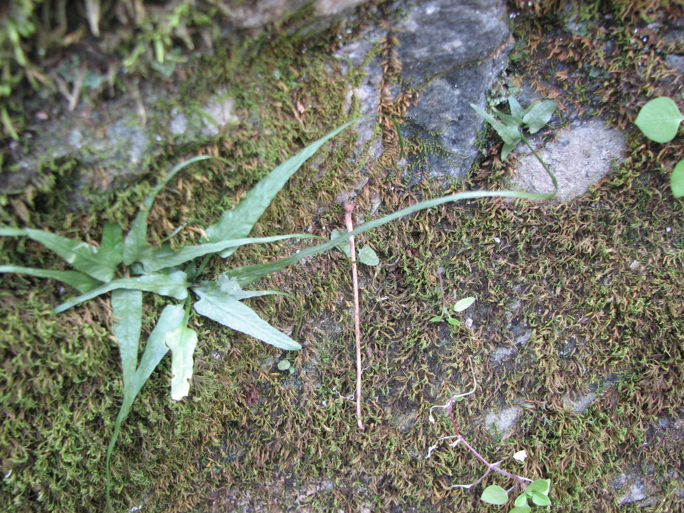 Picture of American walking fern (Asplenium rhizophyllum) "walking": a plantlet has developed and rooted at the apex of a leaf from the parent plant. Taken in a small abandoned lime quarry near Pequea Creek, Lancaster County, Pennsylvania.